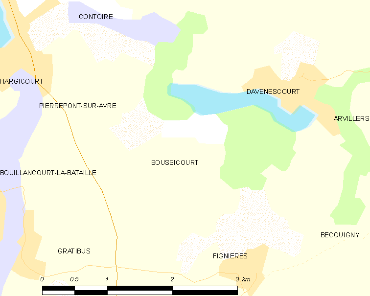 Map of French municipality Boussicourt